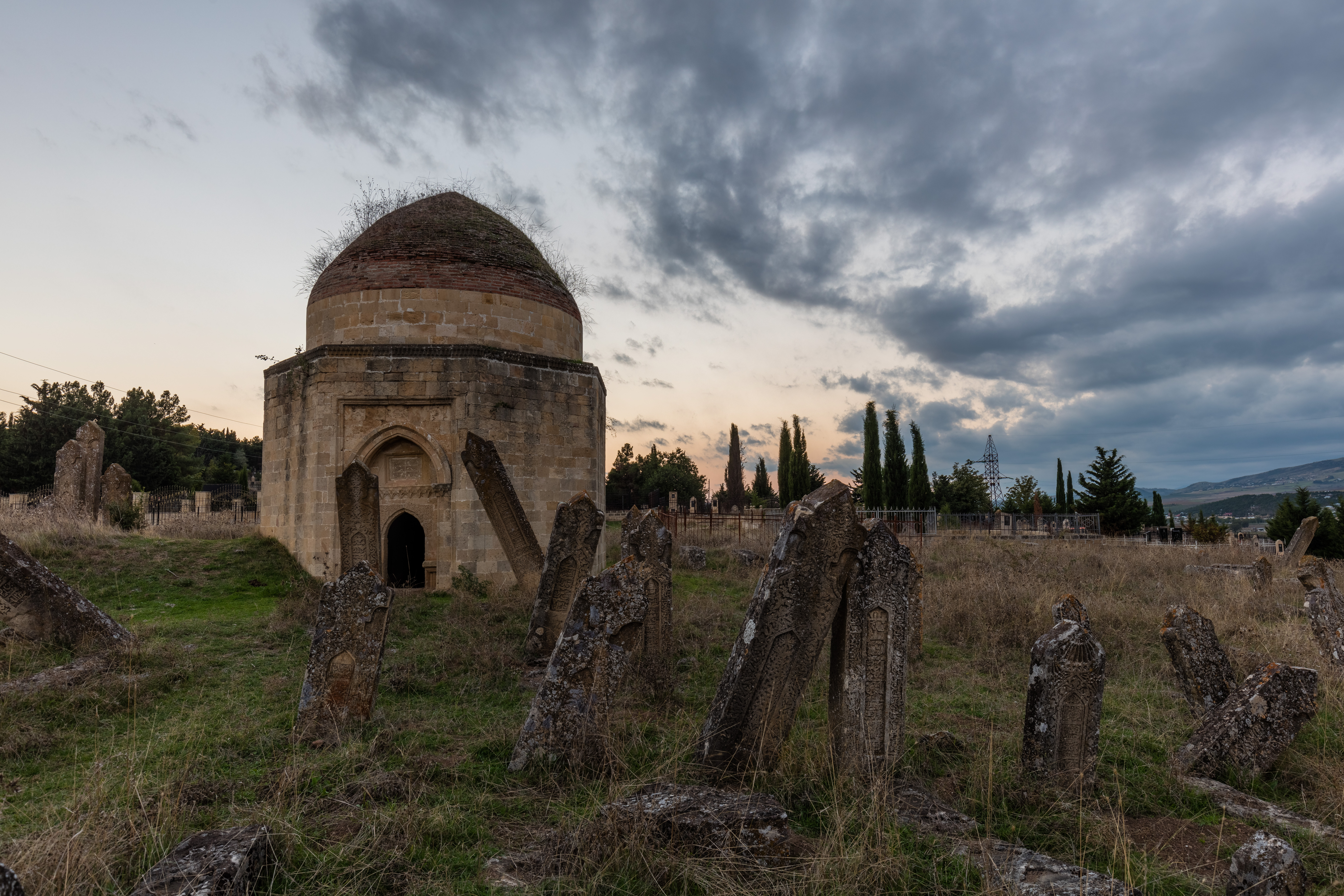 Yeddi Gumbez Mausoleums, Shamakhi, Azerbaijan